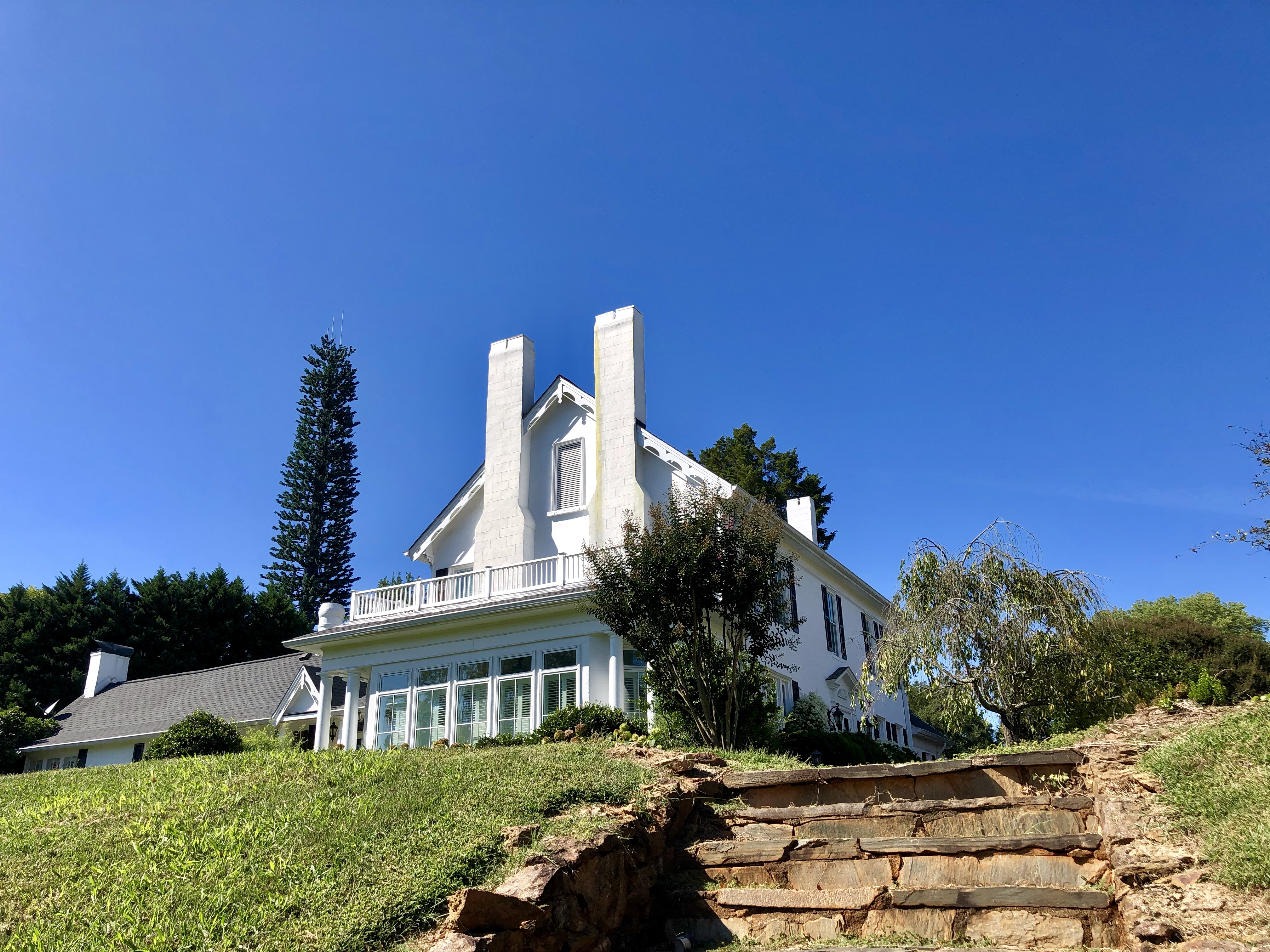 This is Mountain View, a mansion constructed originally around 1815 and heavily renovated circa 1870, located on West Union Street in Morganton, North Carolina. The house was listed on the National Register of Historic Places in 1984.